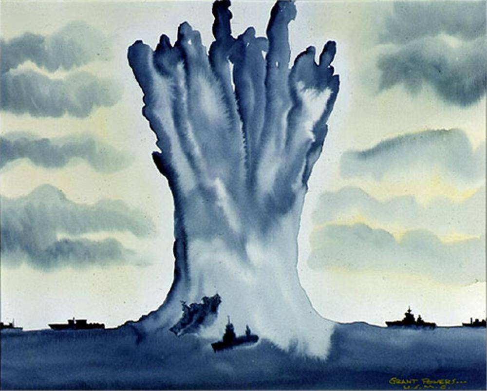 Battleship Arkansas being lifted by the underwater nuclear explosion of Operation Crossroads Baker. Watercolor by U.S. Marine Corps artist. Grant Powers #4, 88-181-D.